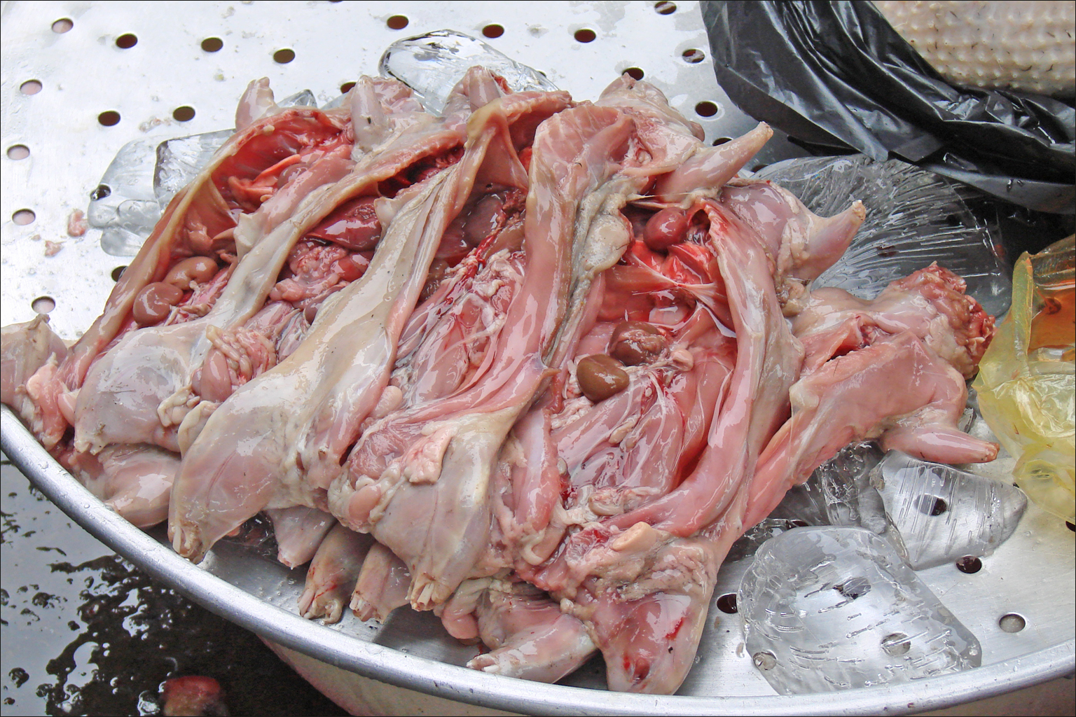 Rats are sold in markets in the Mekong Delta These are ricefield rats, which are rats caught in rice fields and distinct from urban rats that reside in sewers and cities. Sa Dec is a small town along the Mekong River with some nice houses and public buildings (market, school, etc.) dating from the colonial era. There are also Chinese temples. It was once called the "Garden of Cochin" because of the number of trees that existed in this region. Marguerite Duras's novel "The Lover" has left its mark.